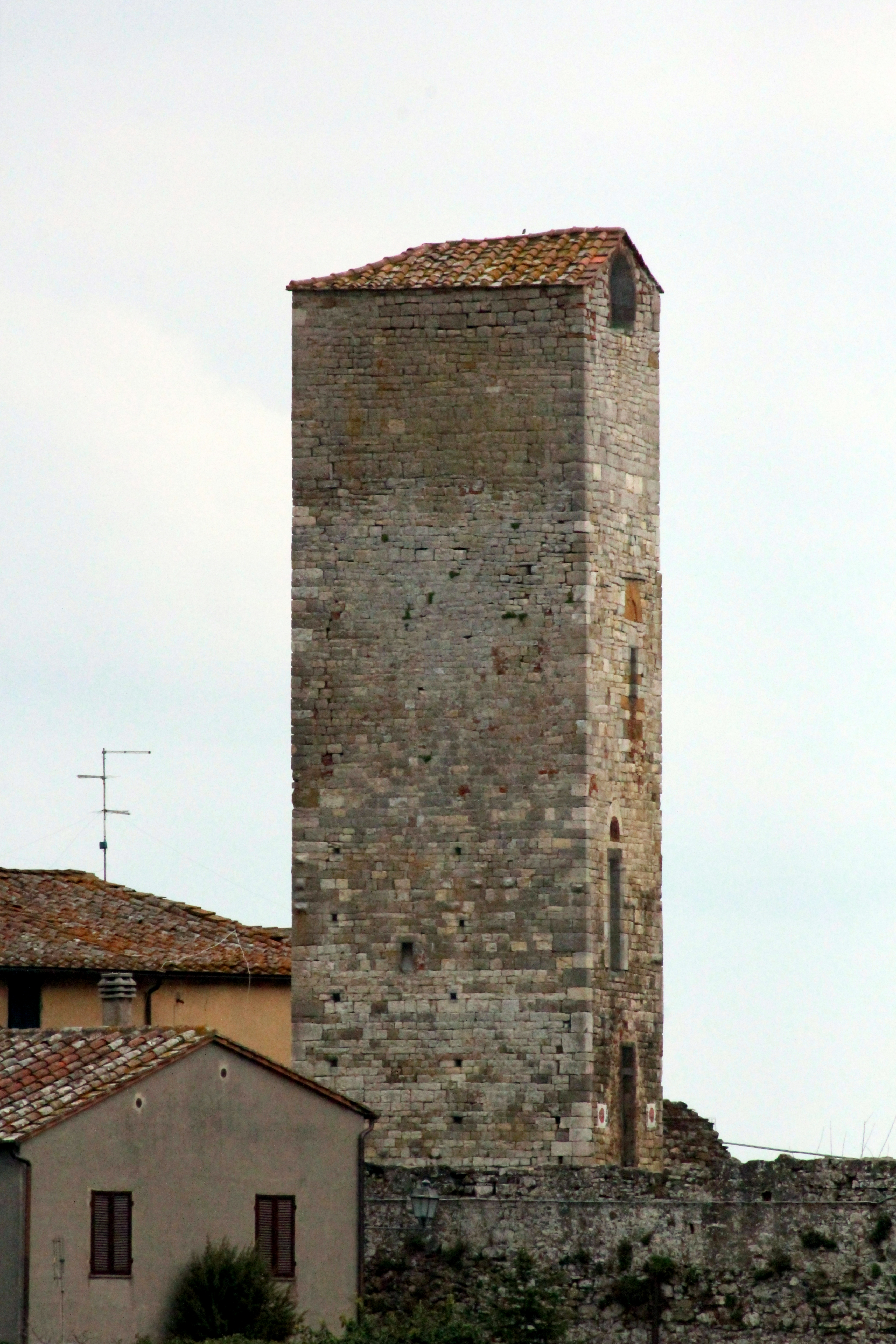 Tower Torre delle Monache in the city center of Lucignano, Valdichiana, Province of Arezzo, Tuscany, Italy